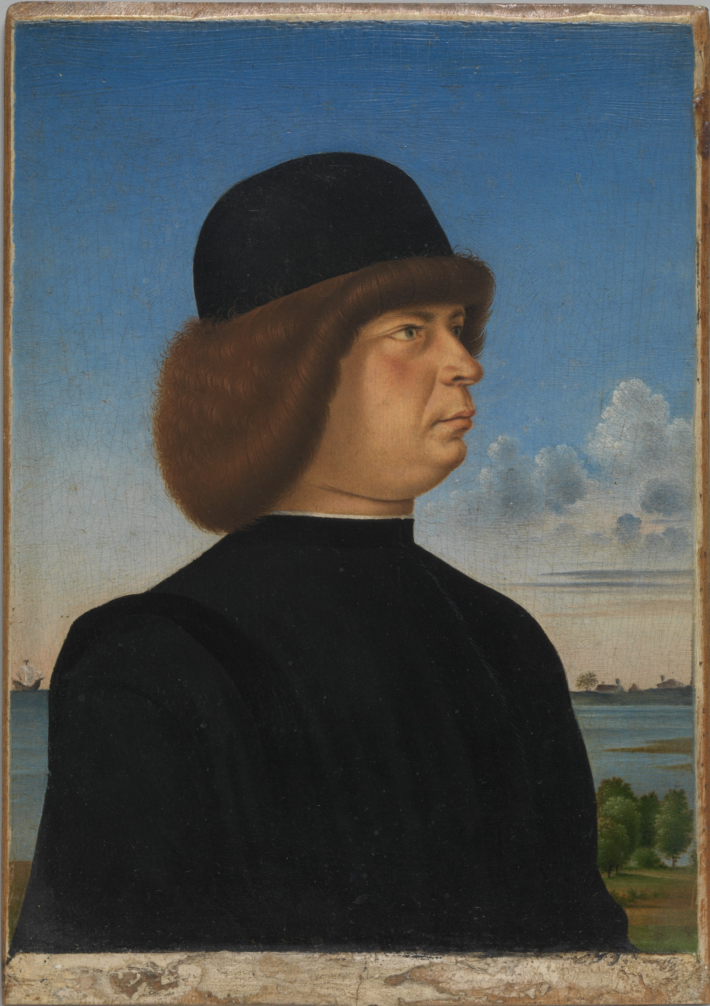 Portrait of Alvise Contarini (recto) and a tethered roebuck (verso); portrait of a woman (recto) and scene in grisaille (verso)